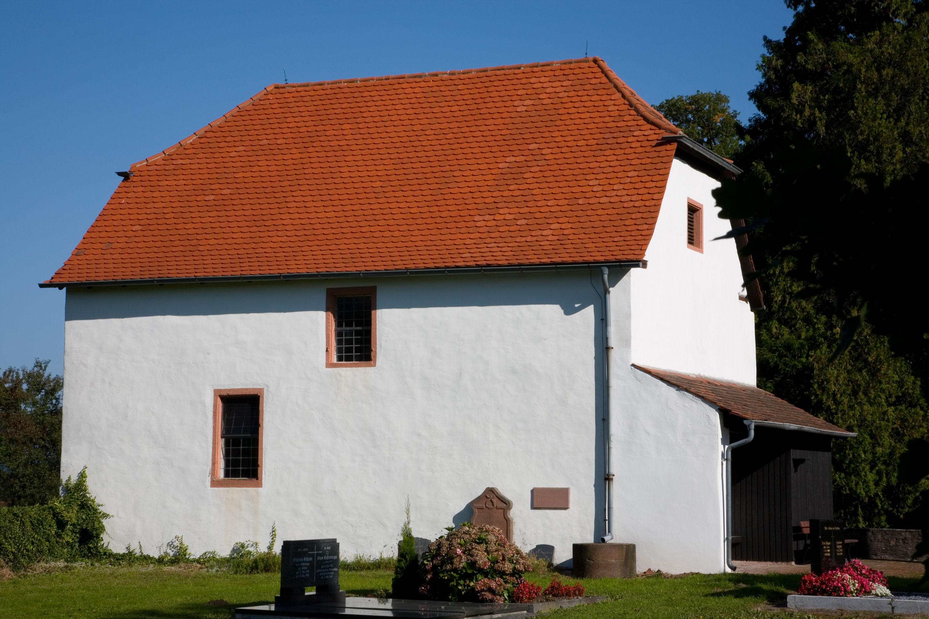 Cemetery chapel on the Leimberg near Reichelsheim/Odenwald